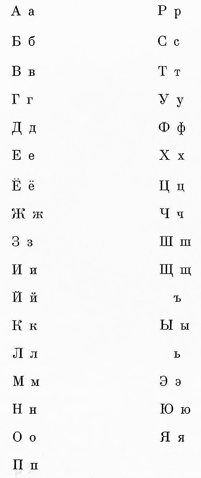 The Russian alphabet, upper and lower case